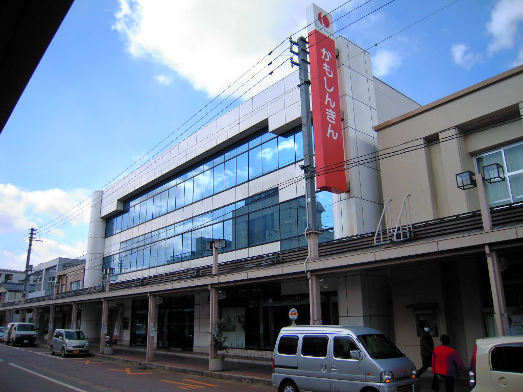 Kamo Shinkin Bank head store.